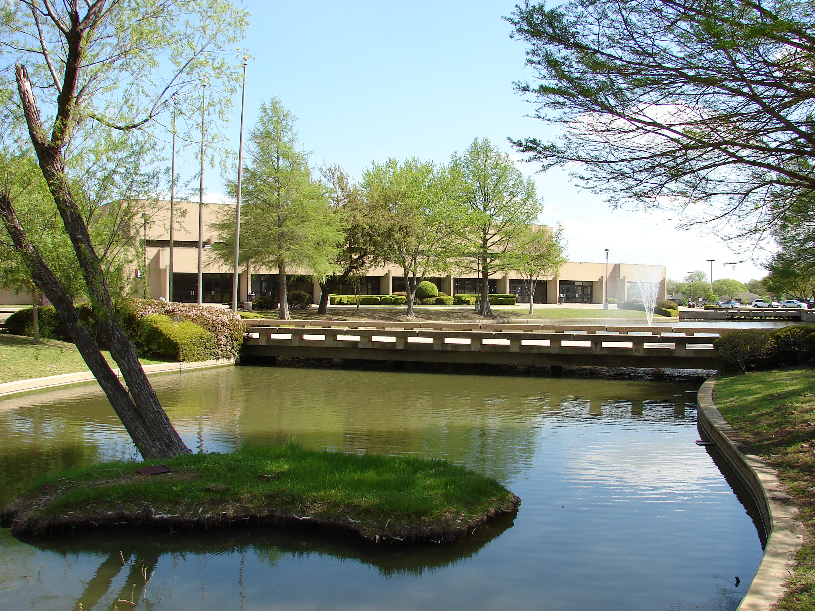 Plano Senior High School in Plano, Texas.